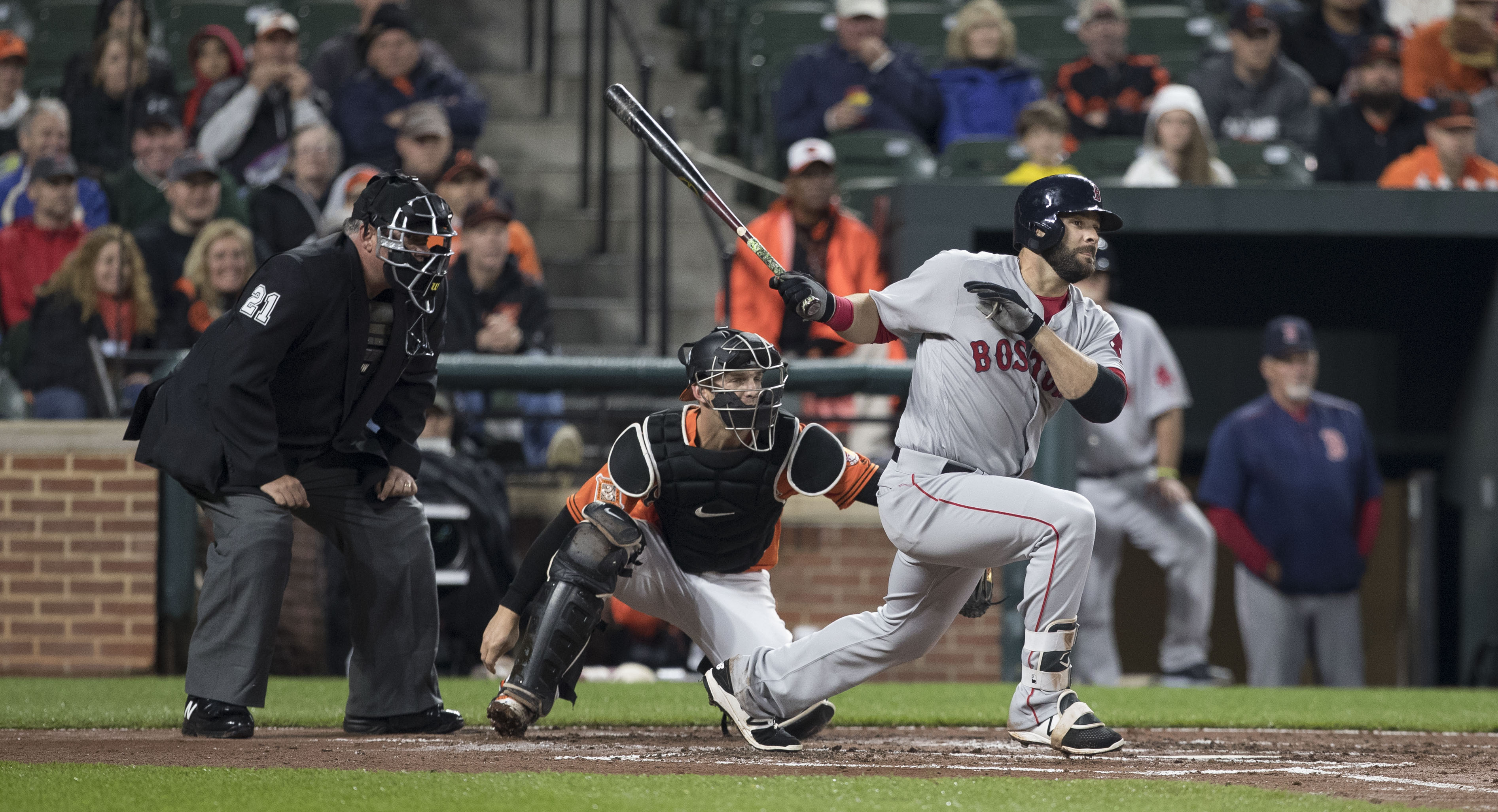 Red Sox at Orioles 4/22/17